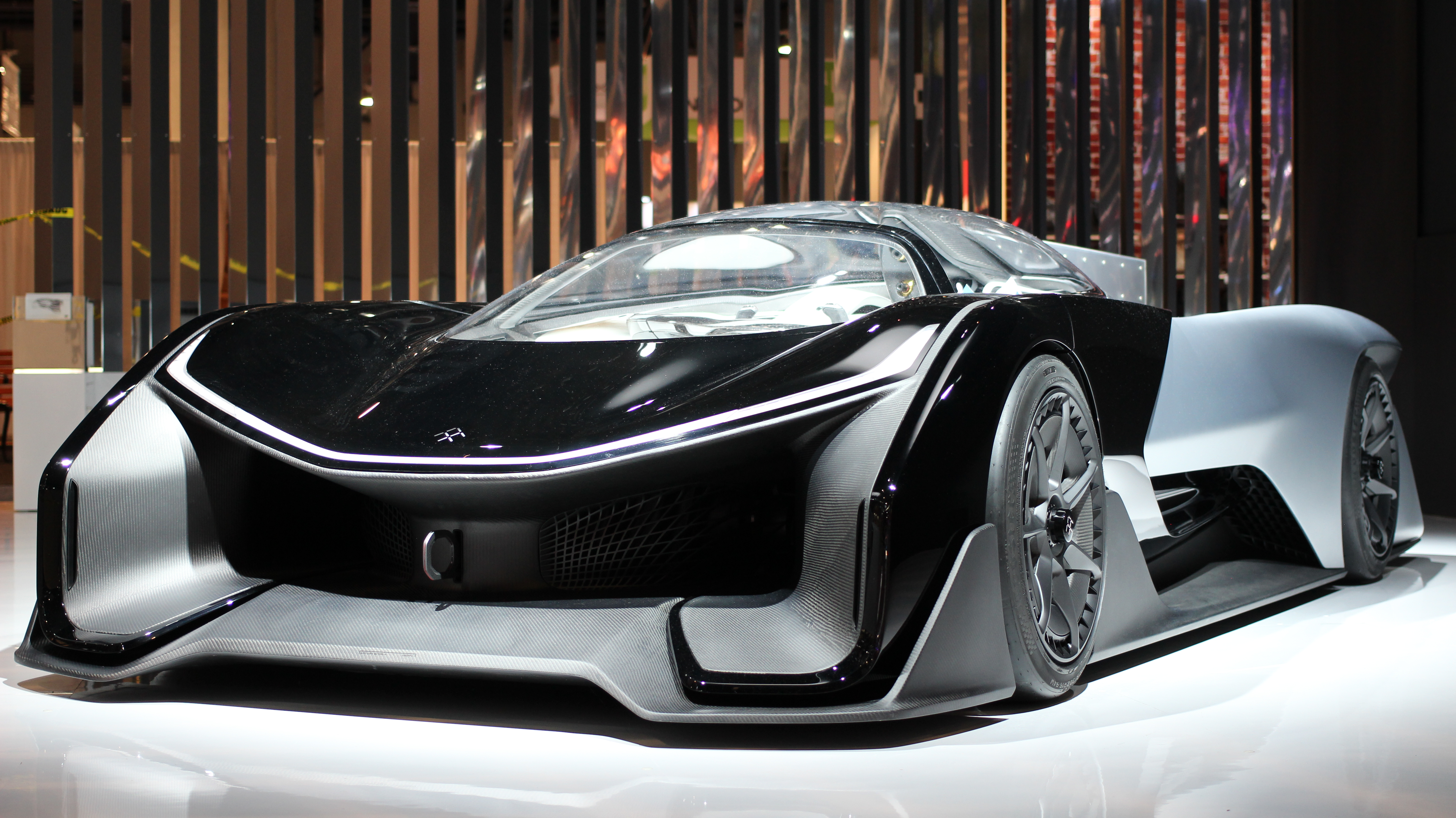 Faraday Future FFZERO1 Concept Prototype